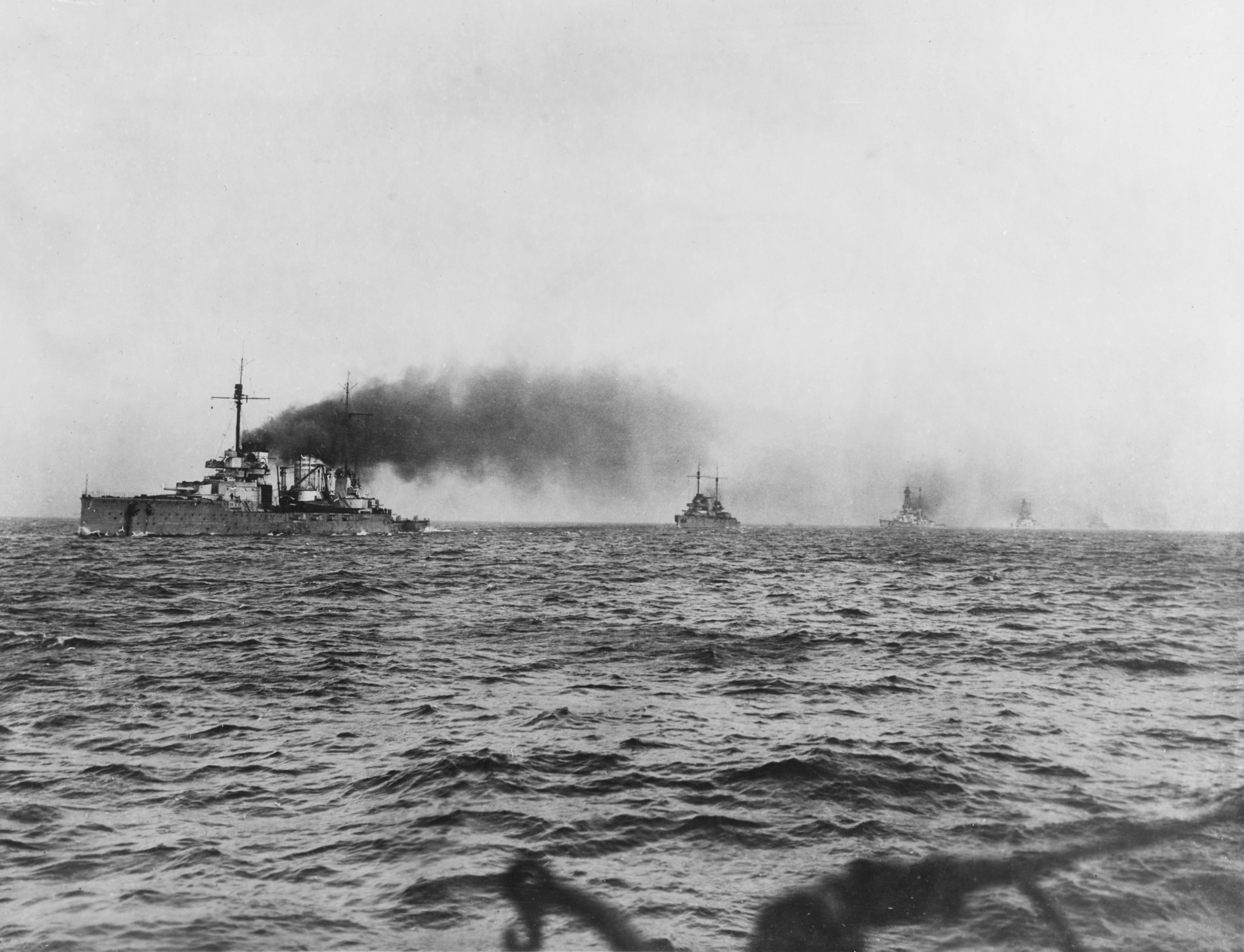 SMS Seydlitz (German Battle Cruiser, 1913-1919) leads her fellow battle cruisers toward Scapa Flow and internment on Thursday 21 November 1918. SMS Moltke is next astern, followed by the two remaining Derfflinger class ships, Hindenburg and Derfflinger (Lützow had been sunk at the Battle of Jutland in 1916). Von der Tann is the fifth ship in the column. (ref: Enclosure No. 2 to Memorandum H.F. 0050/9 of 20 November 1918 - "Operation ZZ")